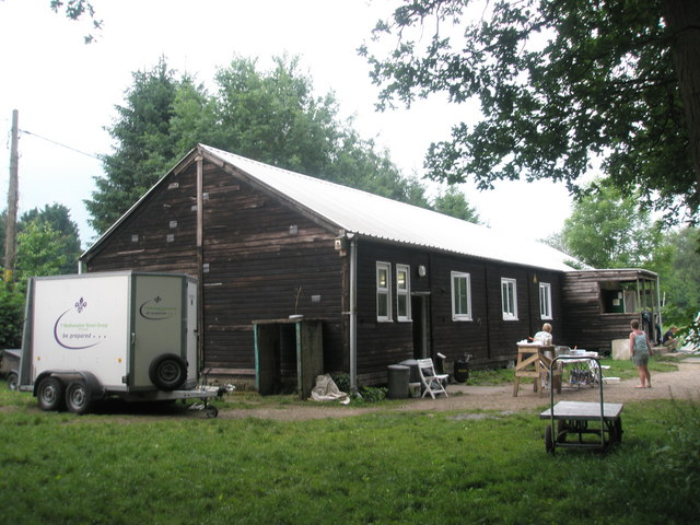 Lyons Copse Scout HQ